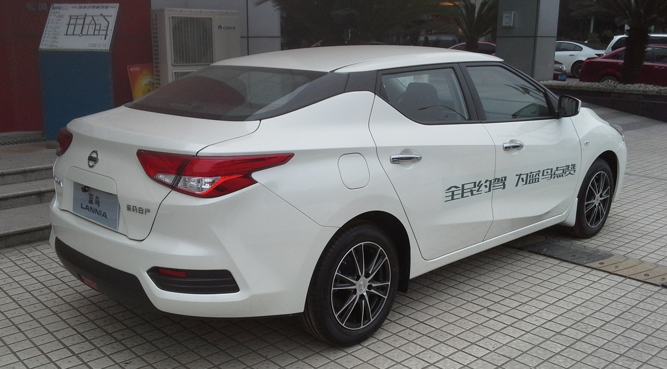 Nissan Lannia photographed in Chengdu, Sichuan province, China.